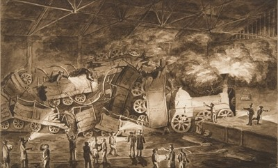 Rly accident at Salisbury 6th October 1856